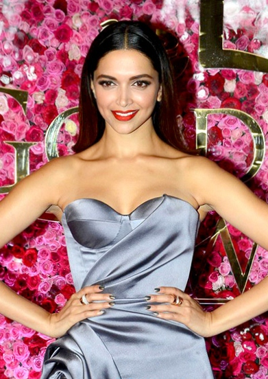 at Lux Golden Rose Awards 2016